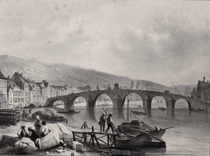 "Le Pont des Arches à Liège", lithograph, 21,5 x 29 cm